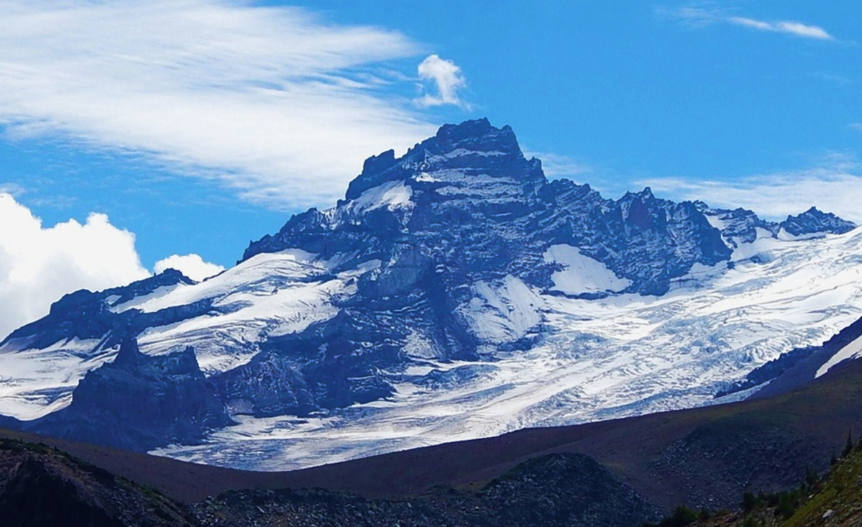 Little Tahoma Peak seen from Skyscraper Mountain in Mount Rainier National Park.